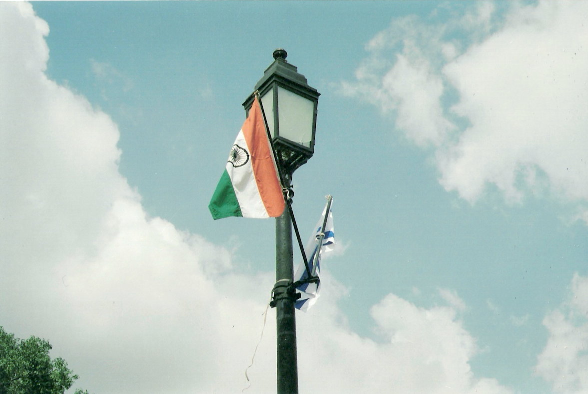 Israeli and Indian flags in New Delhi during PM Ariel Sharon's official visit to India, September 2003. Photo scanned by me in August 2007.